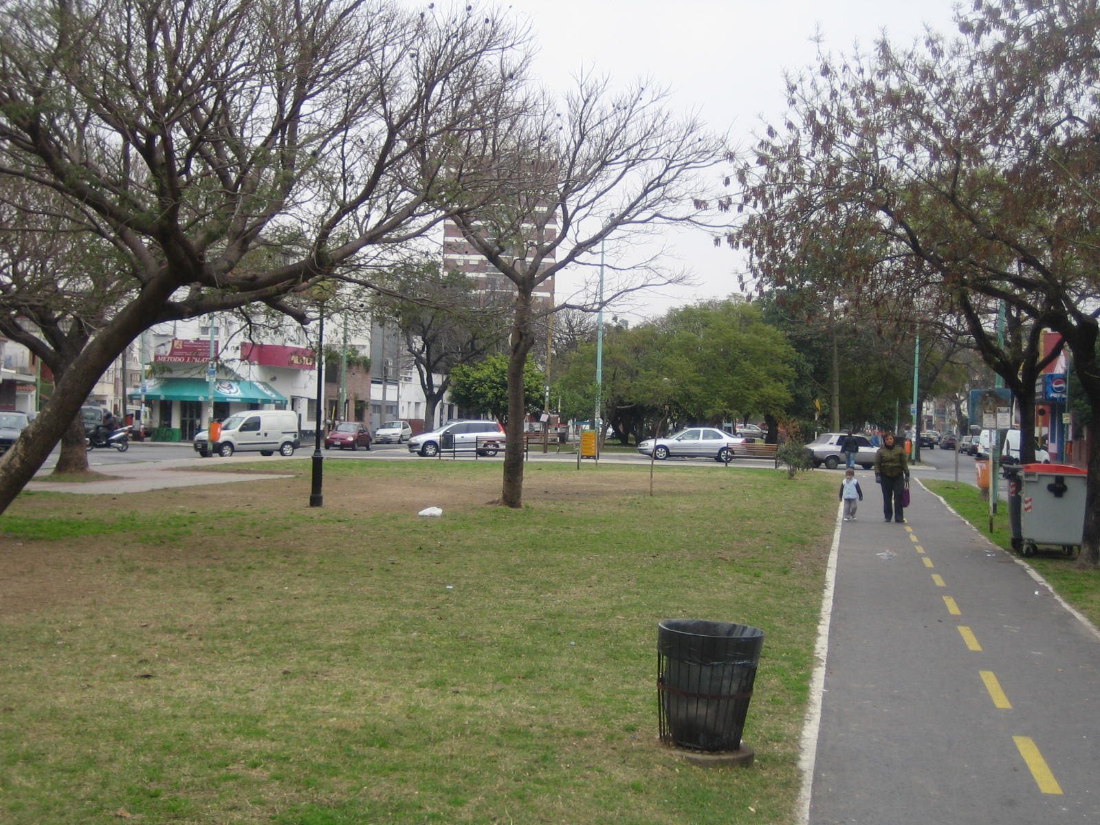 García del Río Ave. - Buenos Aires - Argentina